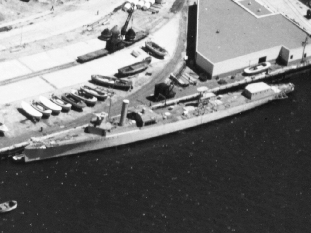 The U.S. Navy Water Barge YW-56 (formerly USS Turner, DD-259) at the Destroyer Base, San Diego, California (USA), on 9 April 1941.